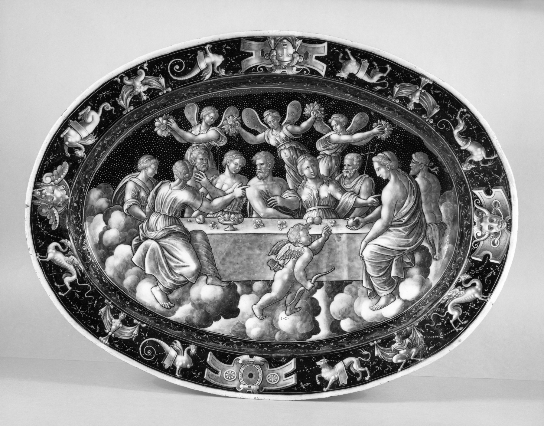 In the clouds above Mount Olympus, the gods celebrate the marriage of the winged God of Love to Psyche, who is seated to the right. Jupiter, in the center, holds a thunderbolt, and three winged Horae scatter flowers over the assembled guests.